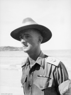 Photo of Lieutenant Colonel Charles H. Green in Wirui, New Guinea.